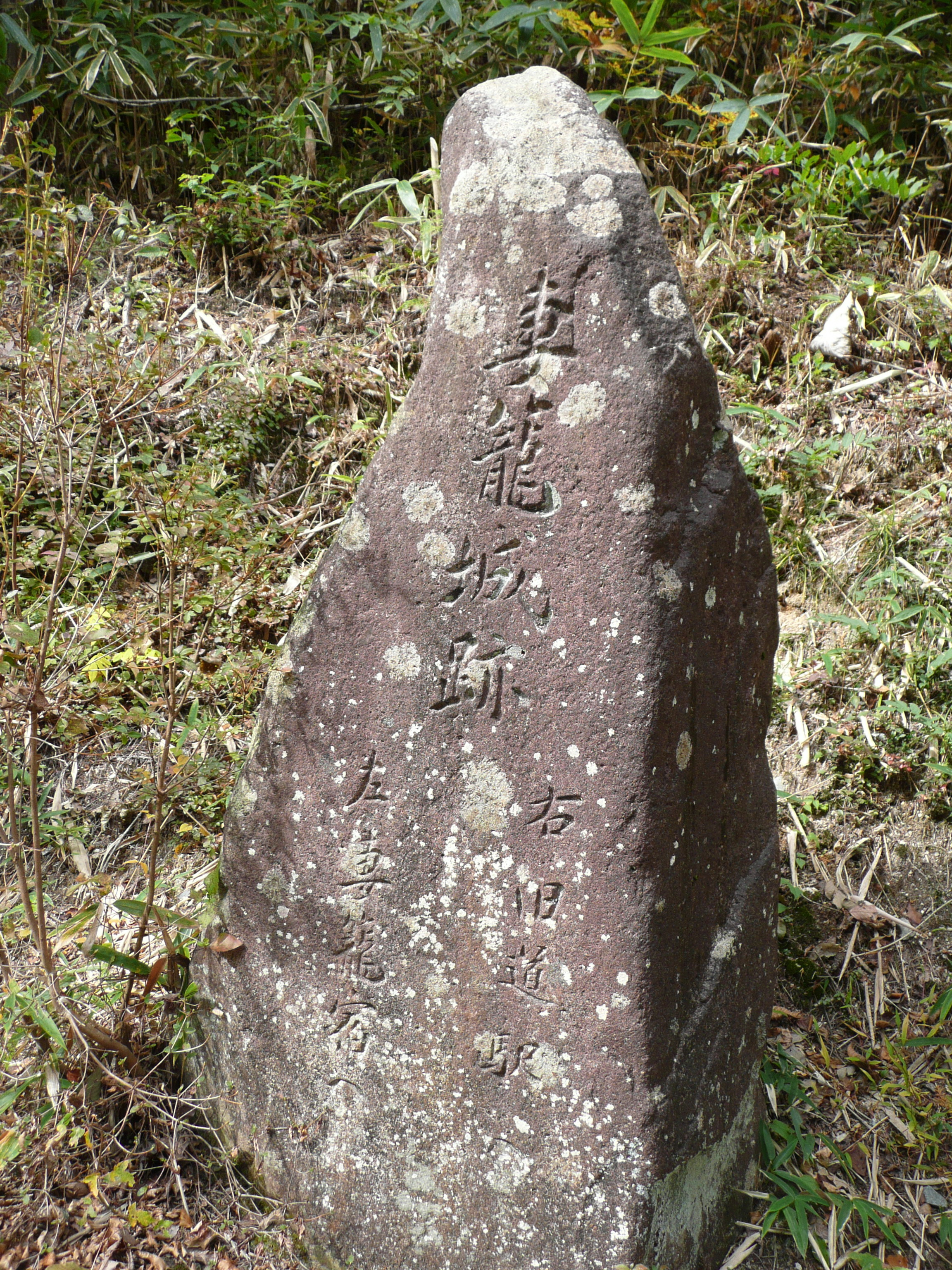 妻籠城の石碑